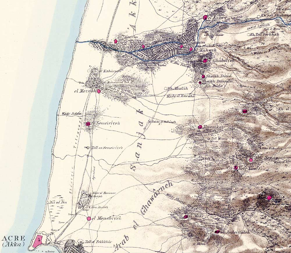 Portion of map produced by the Survey of Western Palestine, first published in 1880 by the Committee of the Palestine Exploration Fund. The editor, Walter Besant, died in 1901. This portion is based on a survey of 1878.